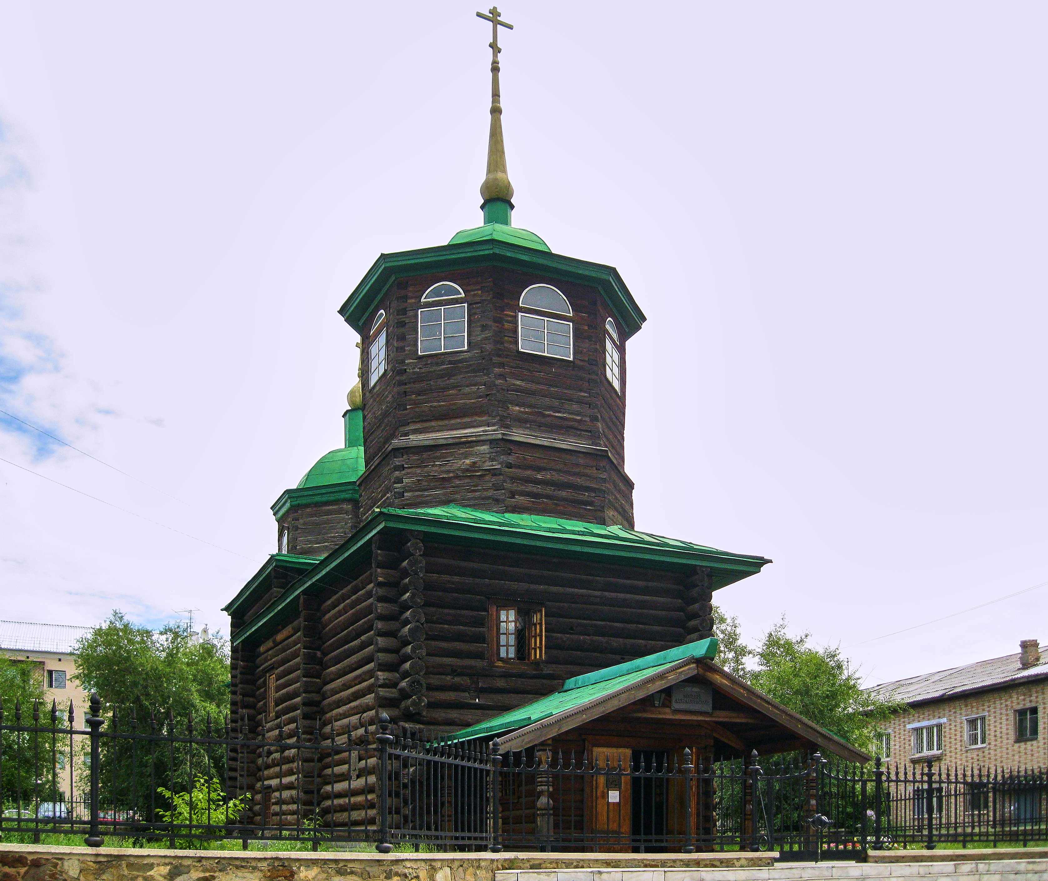 Decabrists' church in Chita, Russia. Built in 1776.